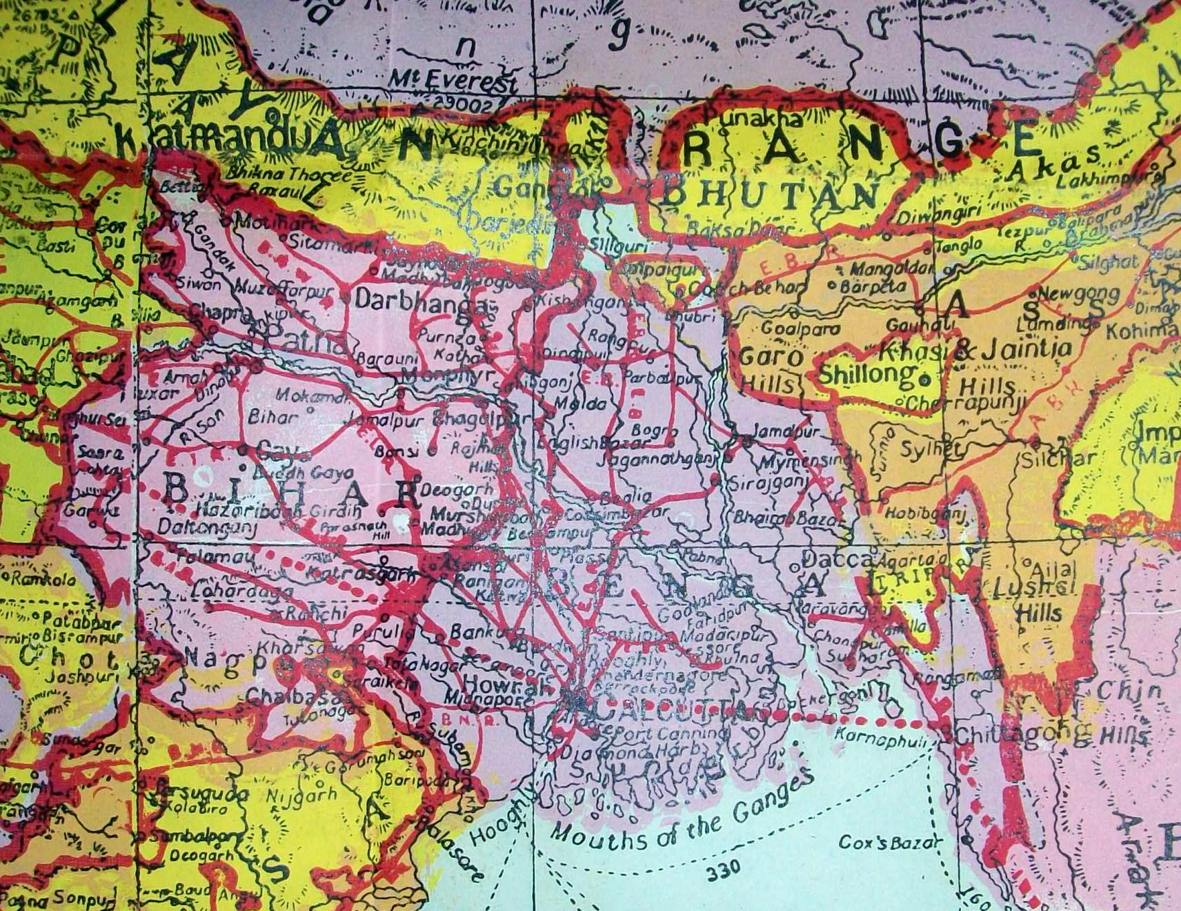 Map by Map House and the Indian Book Depot of Lahore. Pre-partition, dated June 1940. Bengal was still intact, and Sikkim was still a semi-independent Buddhist kingdom.